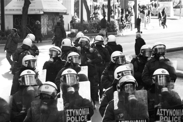 Aerial shot of Greek riot police.